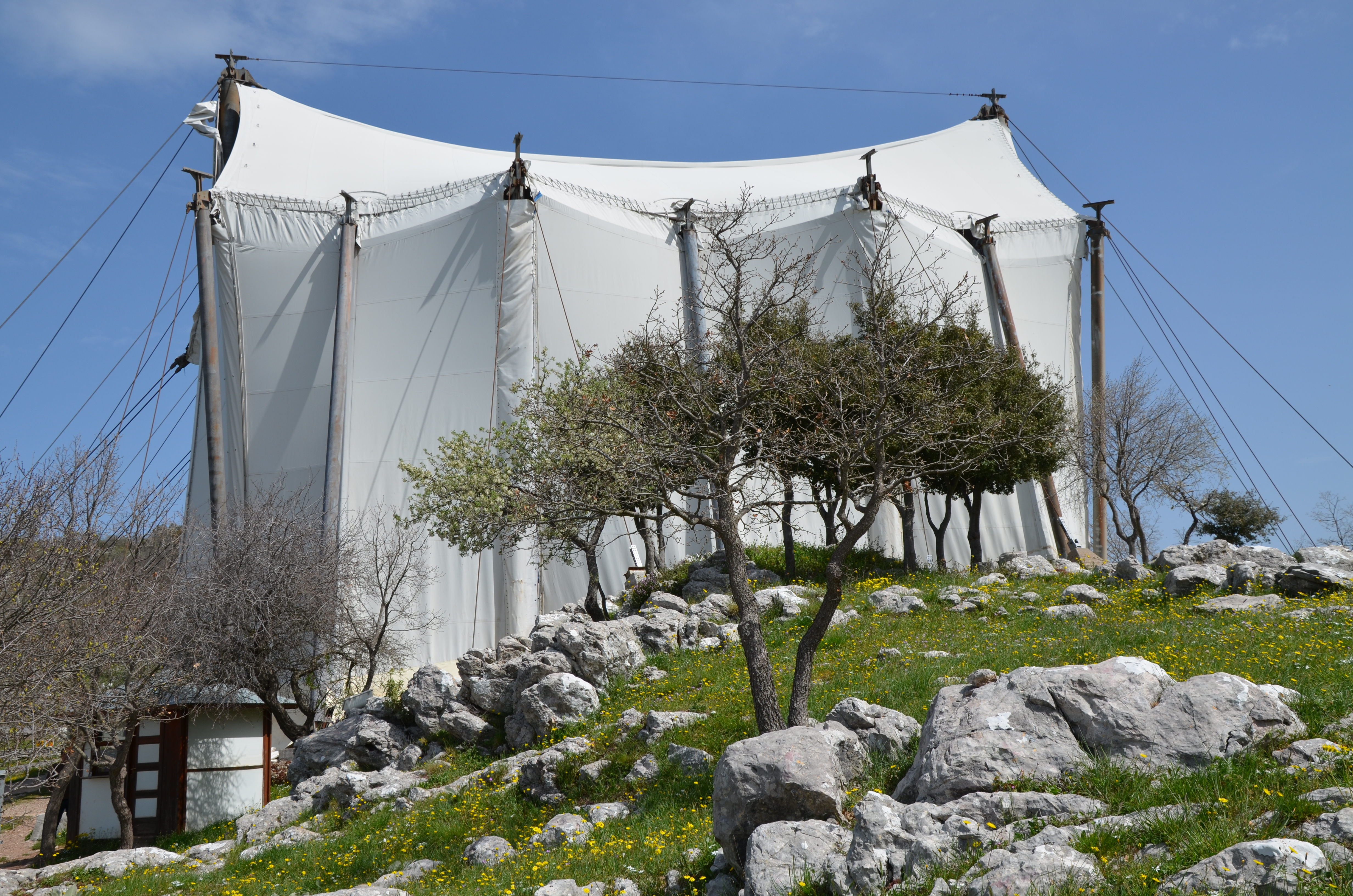 The Temple of Apollo Epikourios at Bassae, the temple is covered by a tent a present, while the structure is made more secure, Arcadia, Greece